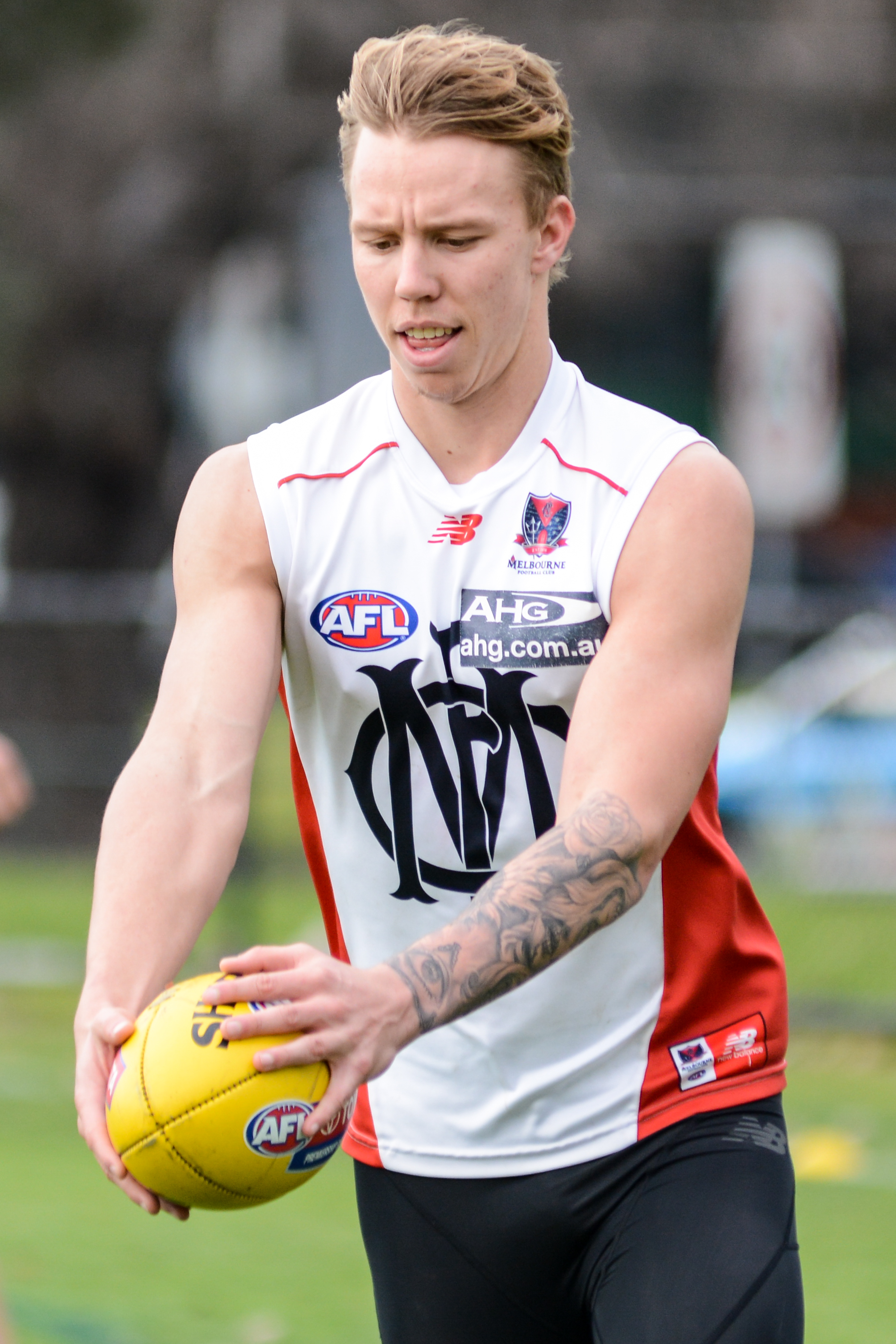 James Harmes at training during July 2015